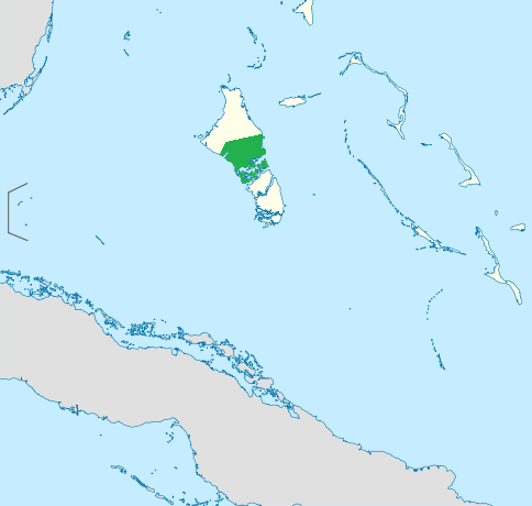 Location map of the Bahamas Equirectangular projection, N/S stretching 105 %. Geographic limits of the map: * N: 27.5° N * S: 20.7° N * W: 80.7° W * E: 70.8° W